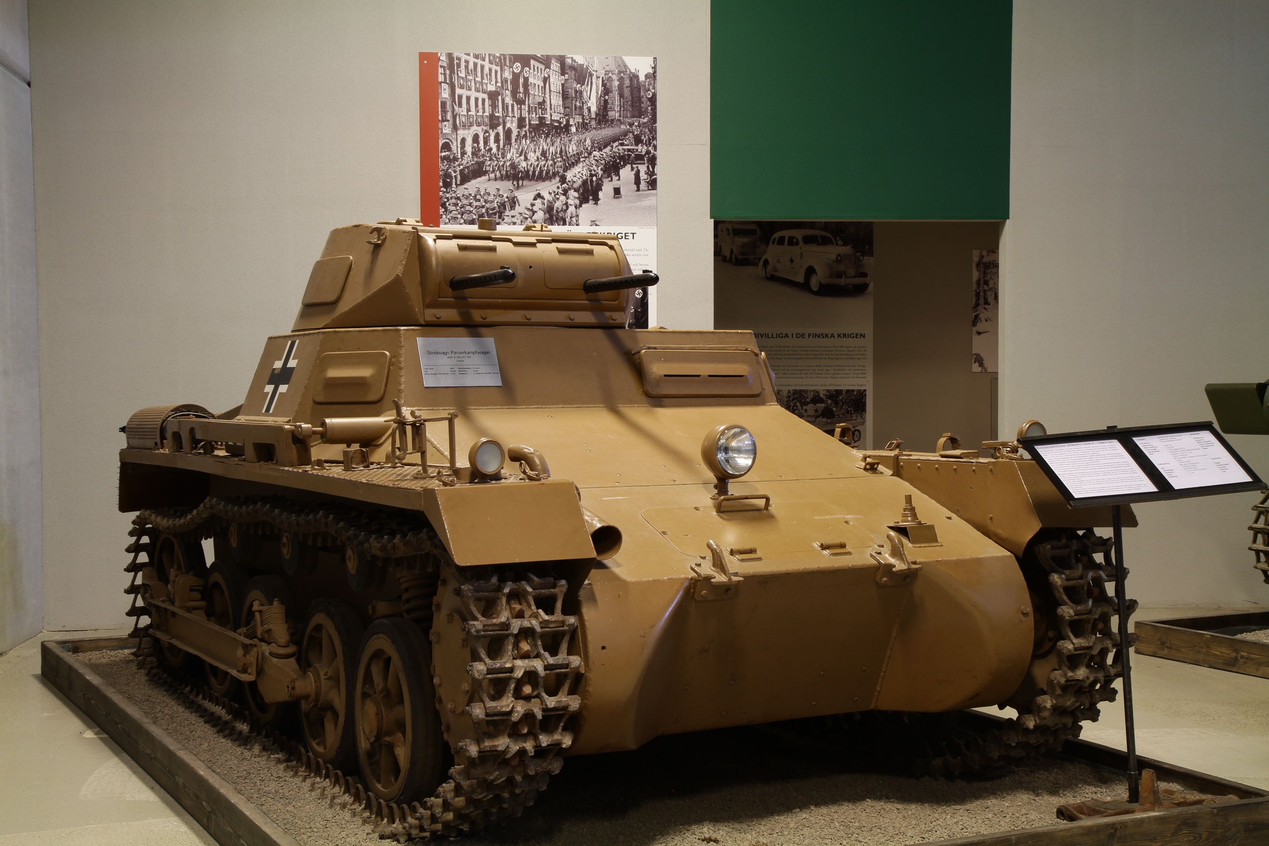 German Panzer I Ausf A in sand coloured paint job on display at the military vehicle museum Arsenalen outside Strängnäs in Sweden. Used by the Wehrmacht durign the first years of World War 2